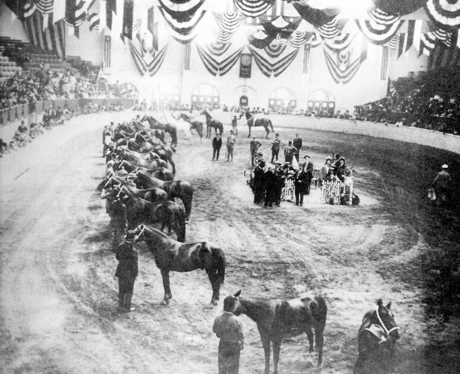 Photograph of a halter class at the 1908 Southwestern Exposition and Livestock Show